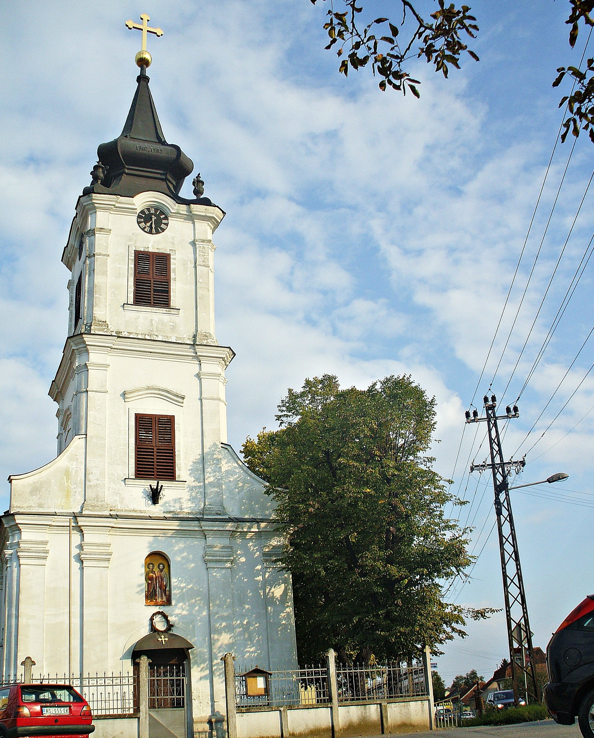 Serbian Orthodox of St. Peter and Paul Church in Rumenka